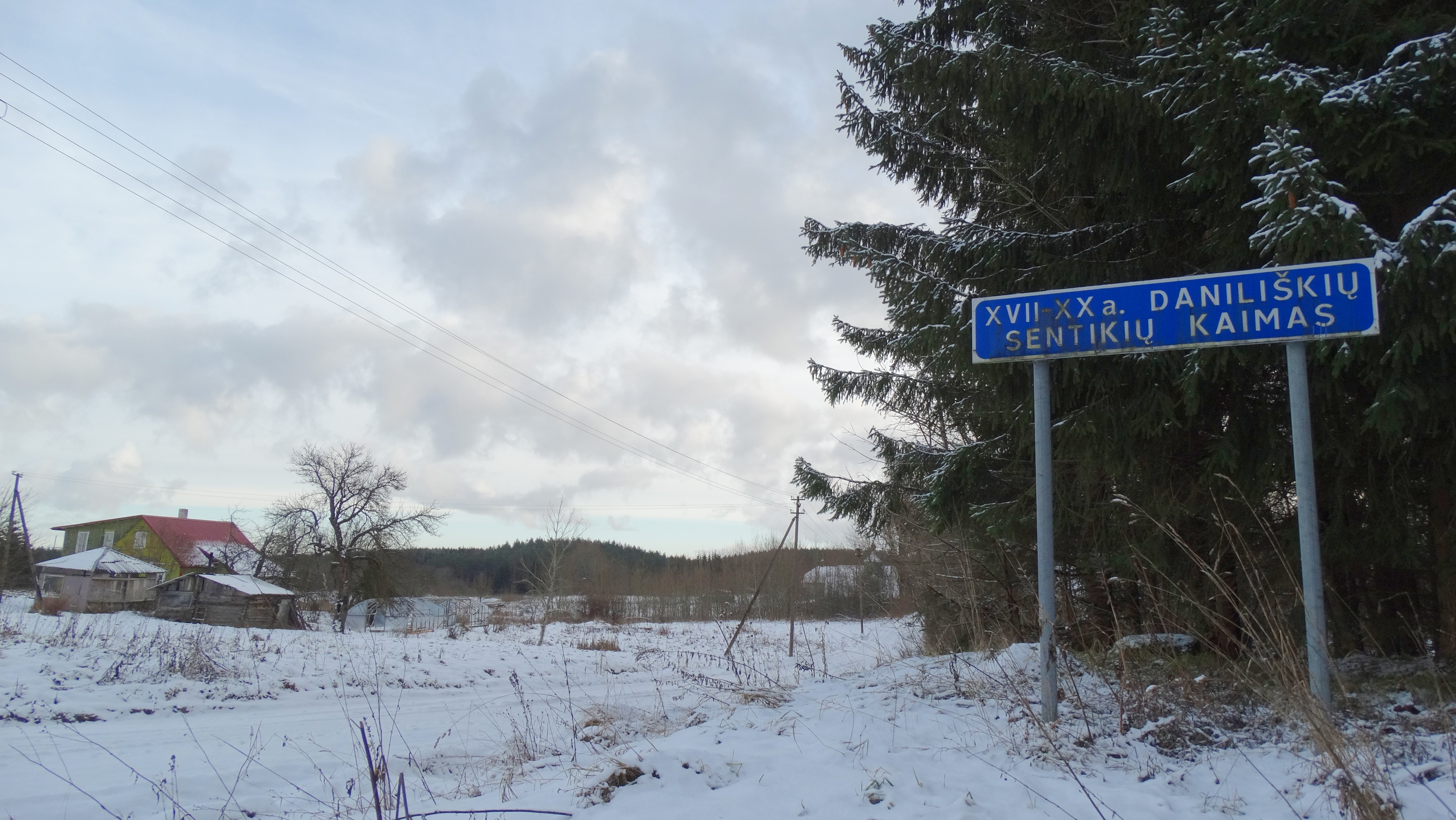 Daniliškės, Trakai district, Lithuania